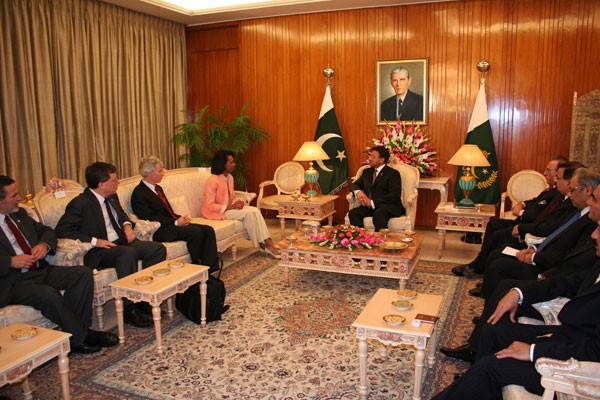 Secretary Rice's bilateral meeting with Pakistani President Pervez Musharraf at the Presidential Palace